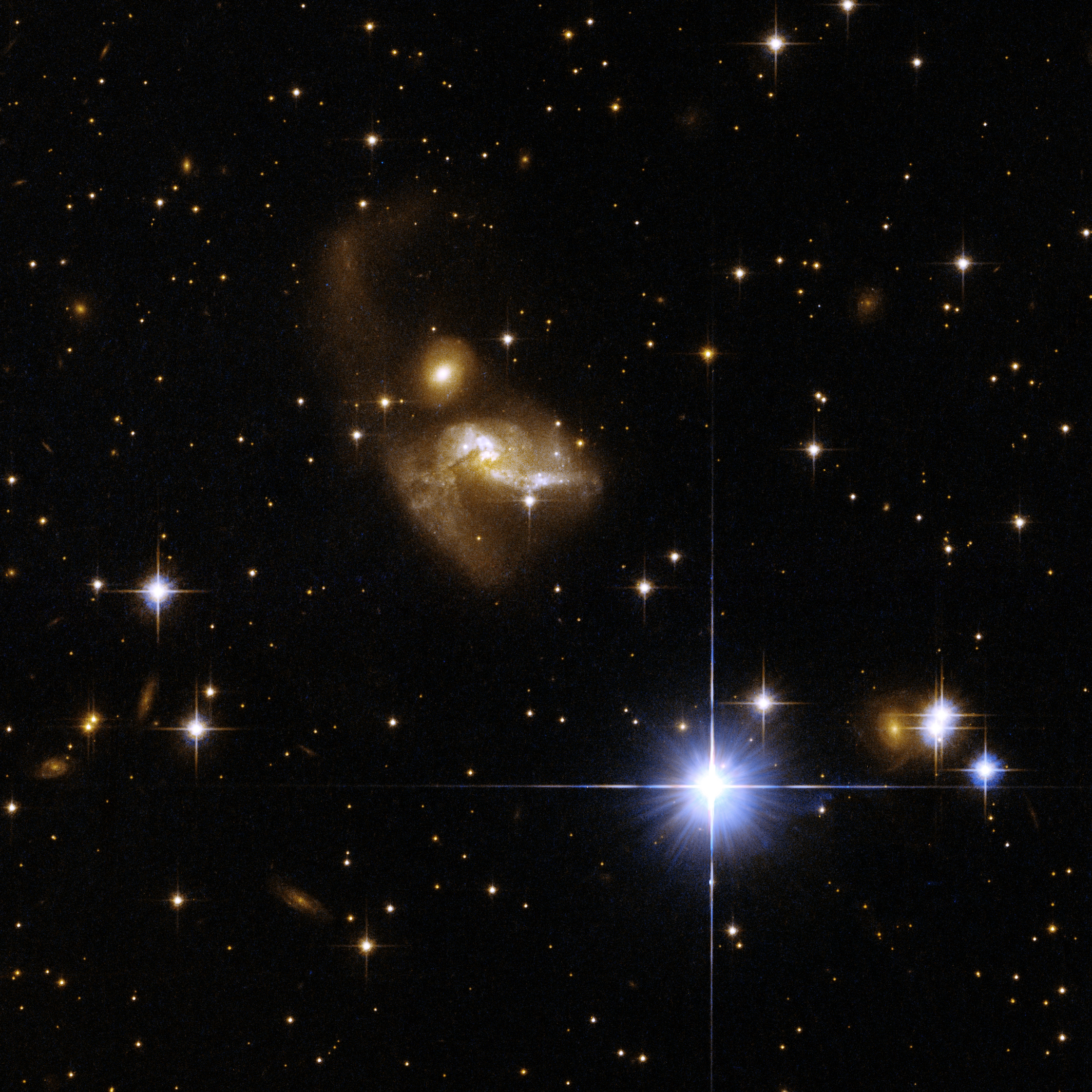 This system is an interacting galaxy pair. The interaction has disturbed both galaxies: the lower galaxy has a bizarre structure and a tidal tail emerges from the main body of the upper galaxy. The galaxy pair lies in a crowded field of Milky Way stars. IRAS 21101+5810 is located in the constellation of Cepheus, the King, about 550 million light-years away from Earth. This image is part of a large collection of 59 images of merging galaxies taken by the Hubble Space Telescope and released on the occasion of its 18th anniversary on 24th April 2008. About the objectObject nameIRAS 21101+5810, 2MASX J21112926+5823074Object descriptionInteracting GalaxiesPosition (J2000)21 11 28.92 +58 23 03.6ConstellationCepheusDistance500 million light-years (150 million parsecs)About the dataData descriptionThe Hubble image was created using HST data from proposal 10592: A. Evans (University of Virginia, Charlottesville/NRAO/Stony Brook University)InstrumentACS/WFCExposure date(s)November 2, 2001Exposure time38 minutesFiltersF435W (B) and F814W (I)